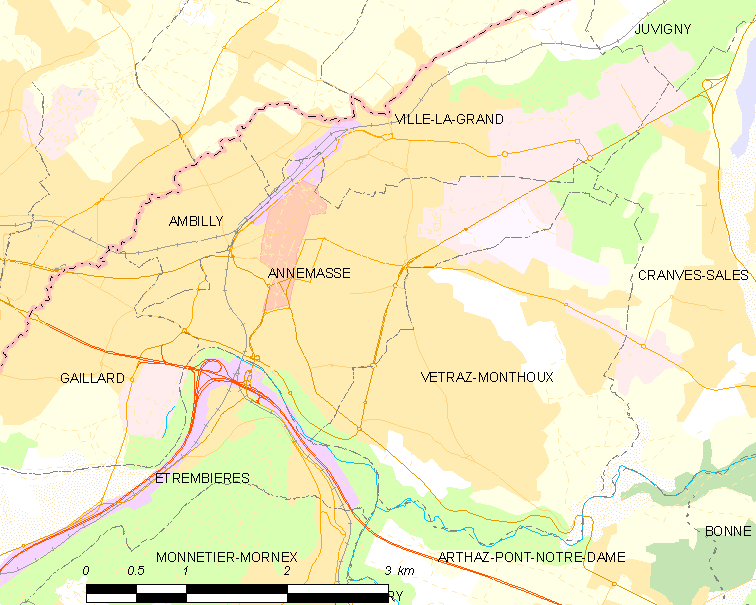 Map of French municipality Annemasse